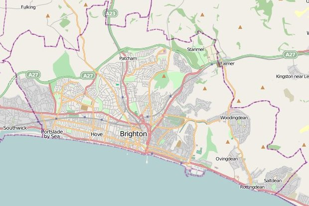 Background map showing city boundary of Brighton & Hove